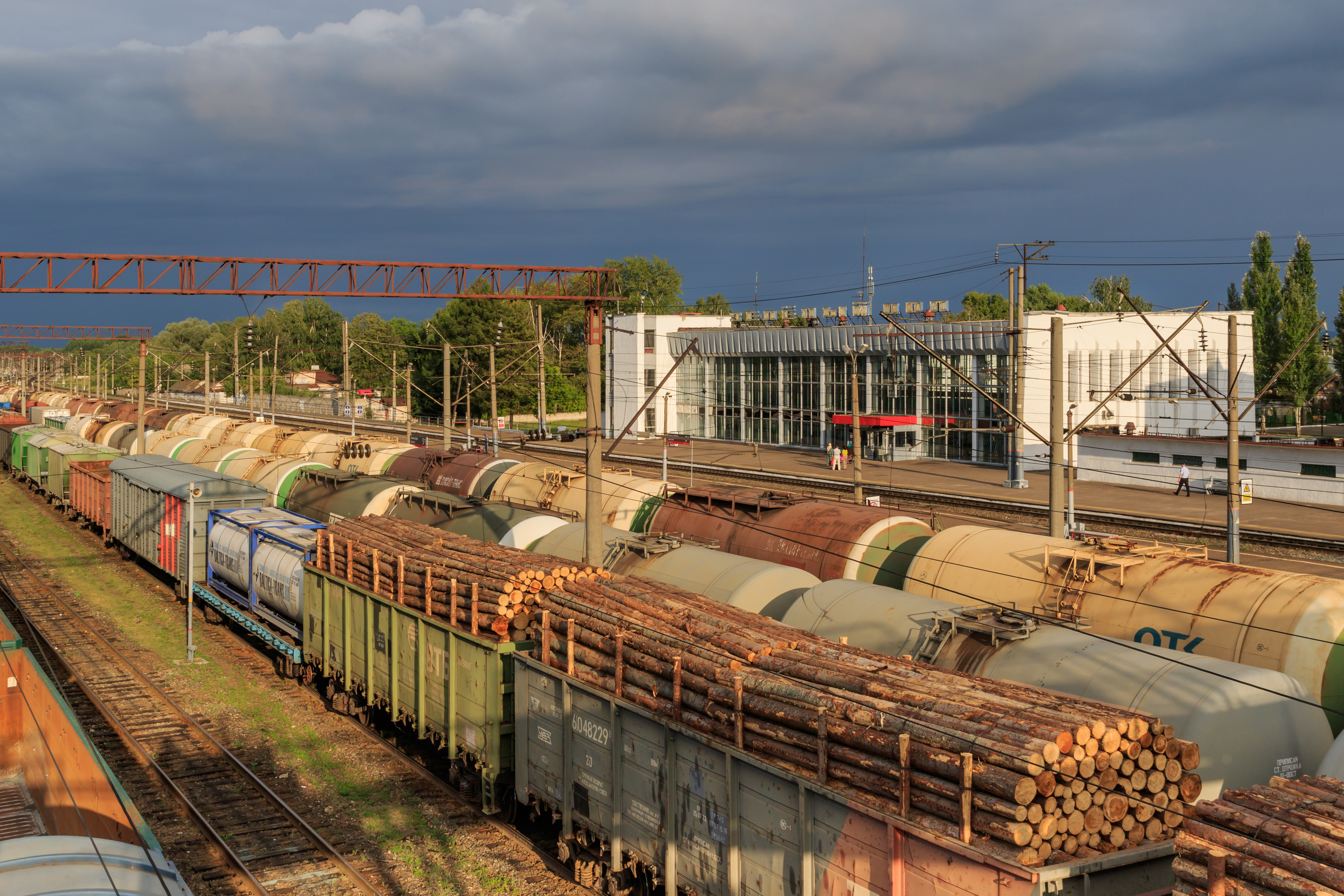 Freight trains at Zeleny Dol railway station in Zelenodolsk, Tatarstan, Russia